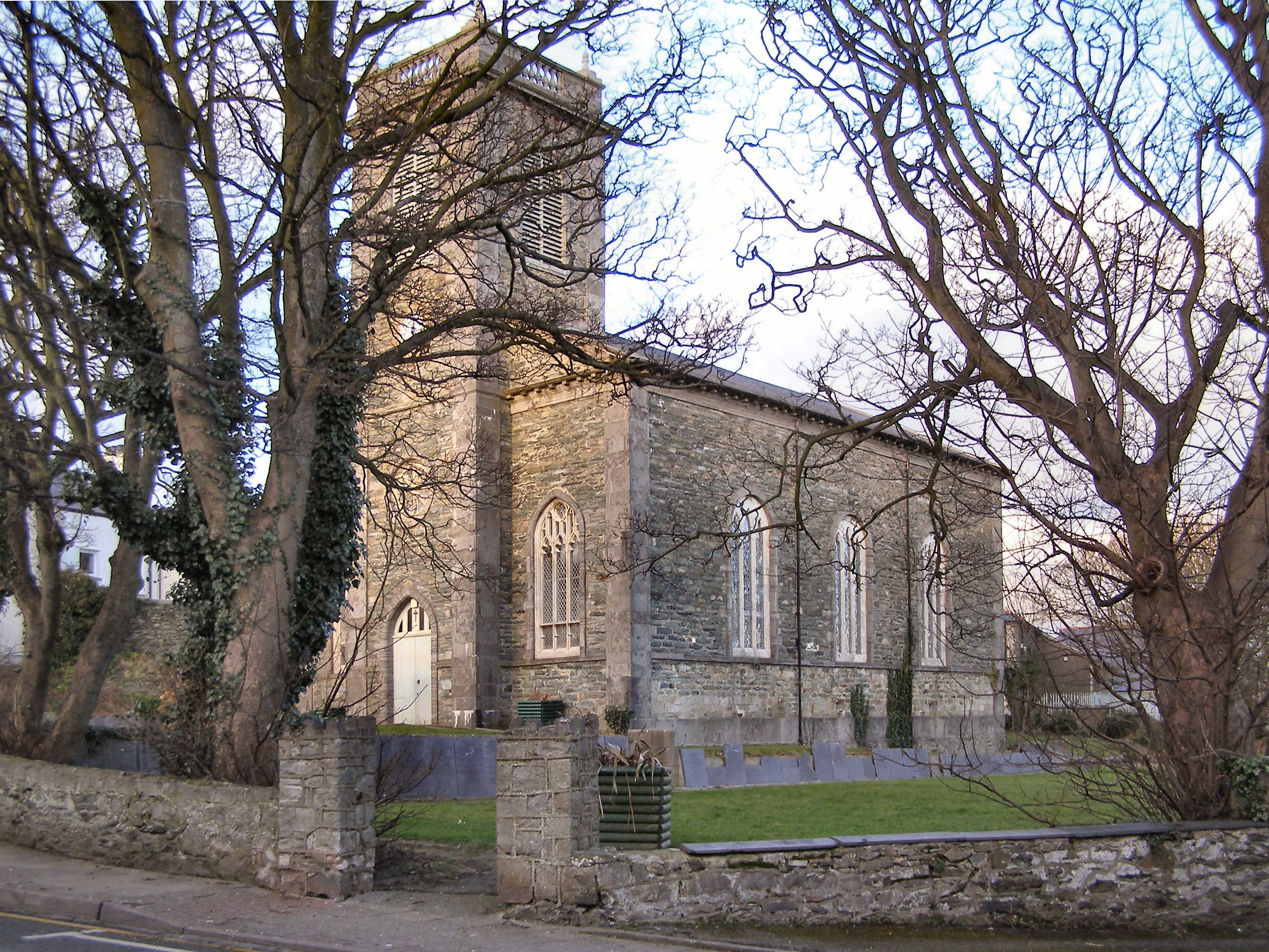 St Elaeth's Church, Amlwch